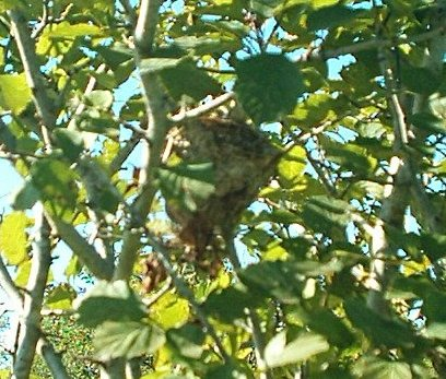 My photo of an American Goldfinch's nest. From the McGill Bird Observatory, near Montreal, QC, Canada.